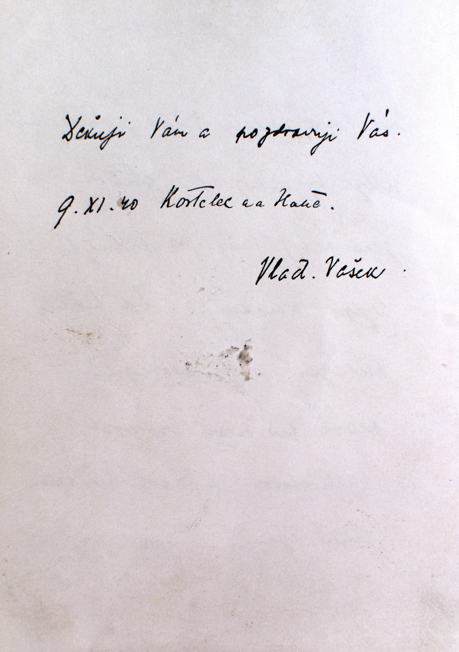 Letter from poet Vladislav Vašek aka Petr Bezruč to writer Stanislav Jandík